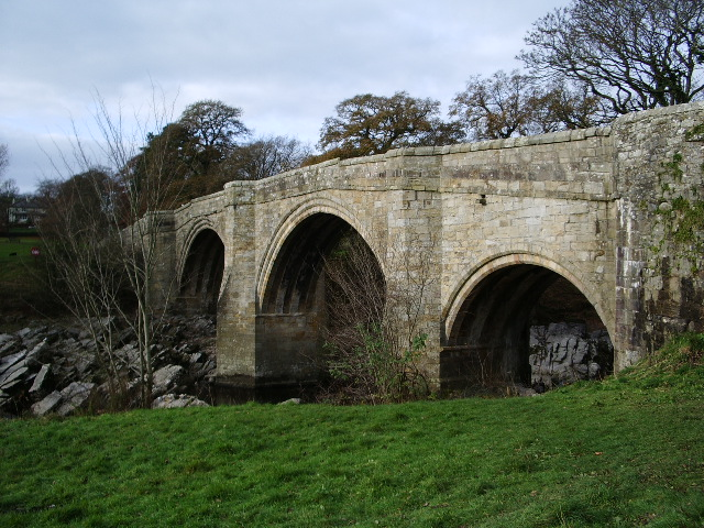 Devil's Bridge, Kirkby Lonsdale